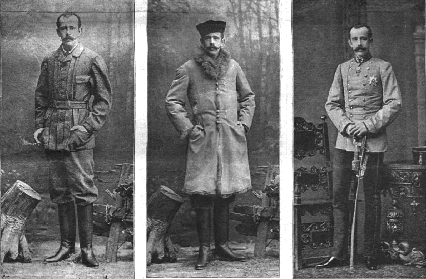 Last photographs of Rudolf, Crown Prince of Austria